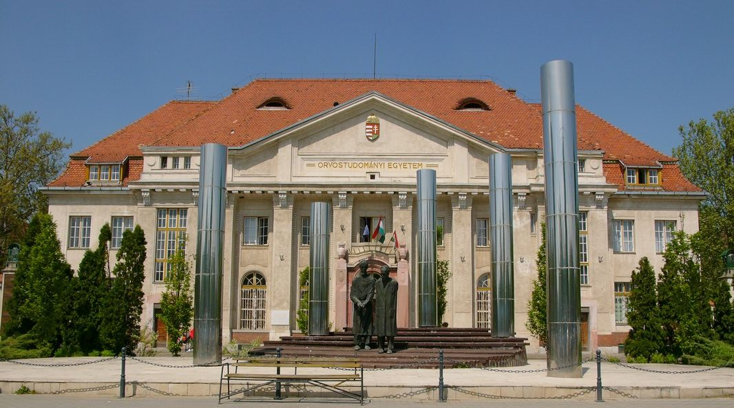 University Debrecen, Medical Faculty main building